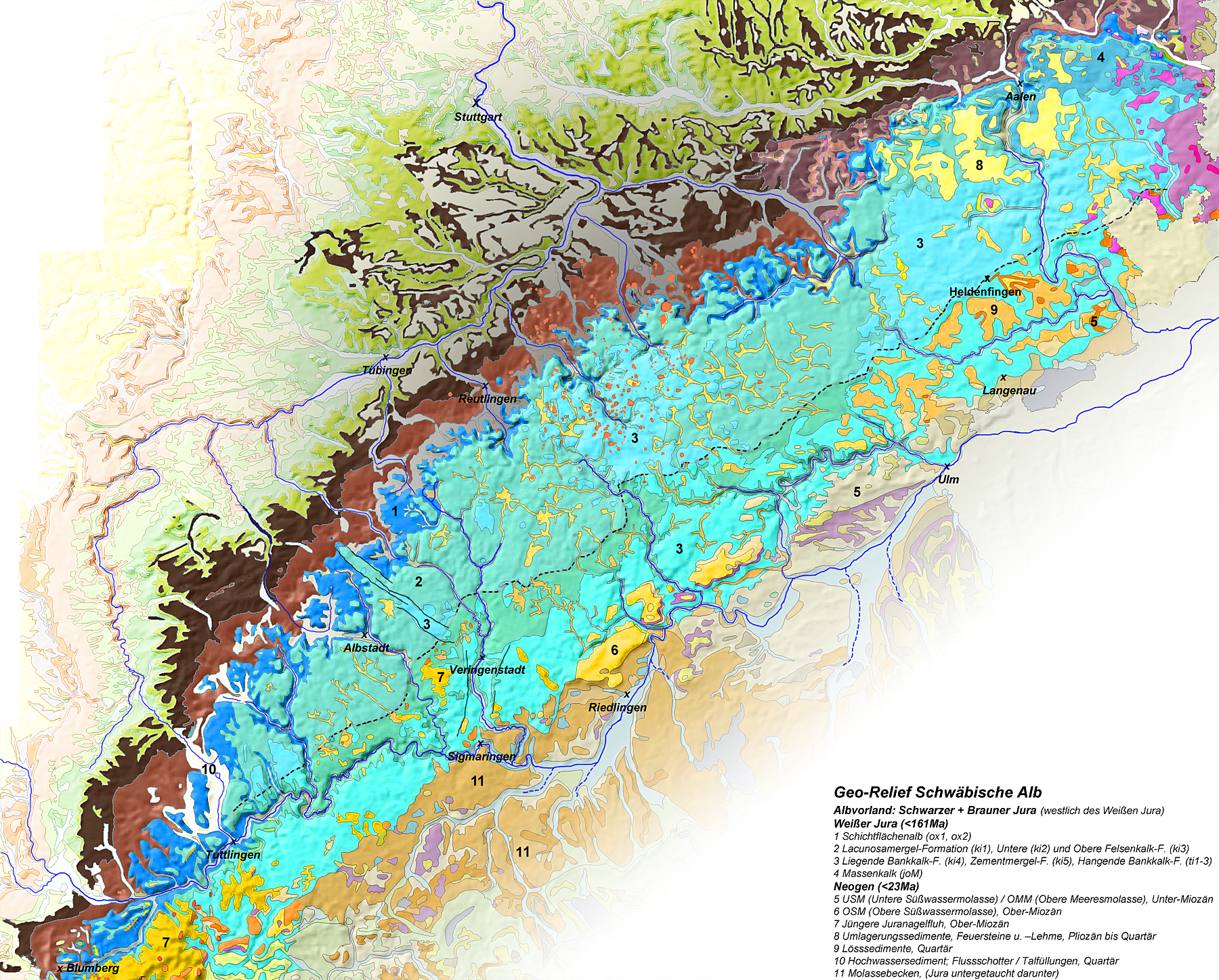 The geological relief of the Swabian Alb is clearly distinguished from Early Jurassic (“Schwarzer Jura”, very dark color) and Middle Jurassic (“Brauner Jura”, several red brown colors). The Swabian Alb relief is devided by the cliff of the last (flat) sea, which covered the Molasse basin and part of the Alb in Lower Miocene (broken line). Long tectonic lift has changed the Alb plateau dramatically. The cliff is today at ca. 900 m in the southwest and at ca. 500 m in the northeast, thus very well indicating the tectonic moves. Geology devides the plateau of the Swabian Alb in 3 parts: the northern “Schichtflächenalb” (emphasized deep blue, denuded to the earliest Late Jurassic), the “Flächenalb”, south of the cliff line (Lower Miocene) and the section in between, the “Kuppenalb”. Mainly on the Kuppenalb bedded facies and non-bedded facies interlock. The “Kuppen” are results of so called “Mud-mound factories”, where sediments contain fossil sponges and microorganisms and a matrix of mud. All Jura finally dips into the Molasse basin, yet where exactly this is can only vaguely be known. The Molasse basin is heavily covered by glacial-, marine- and fluvial sediments of the Alps. These sediments still overlap the southern border at various points (yellow colors).